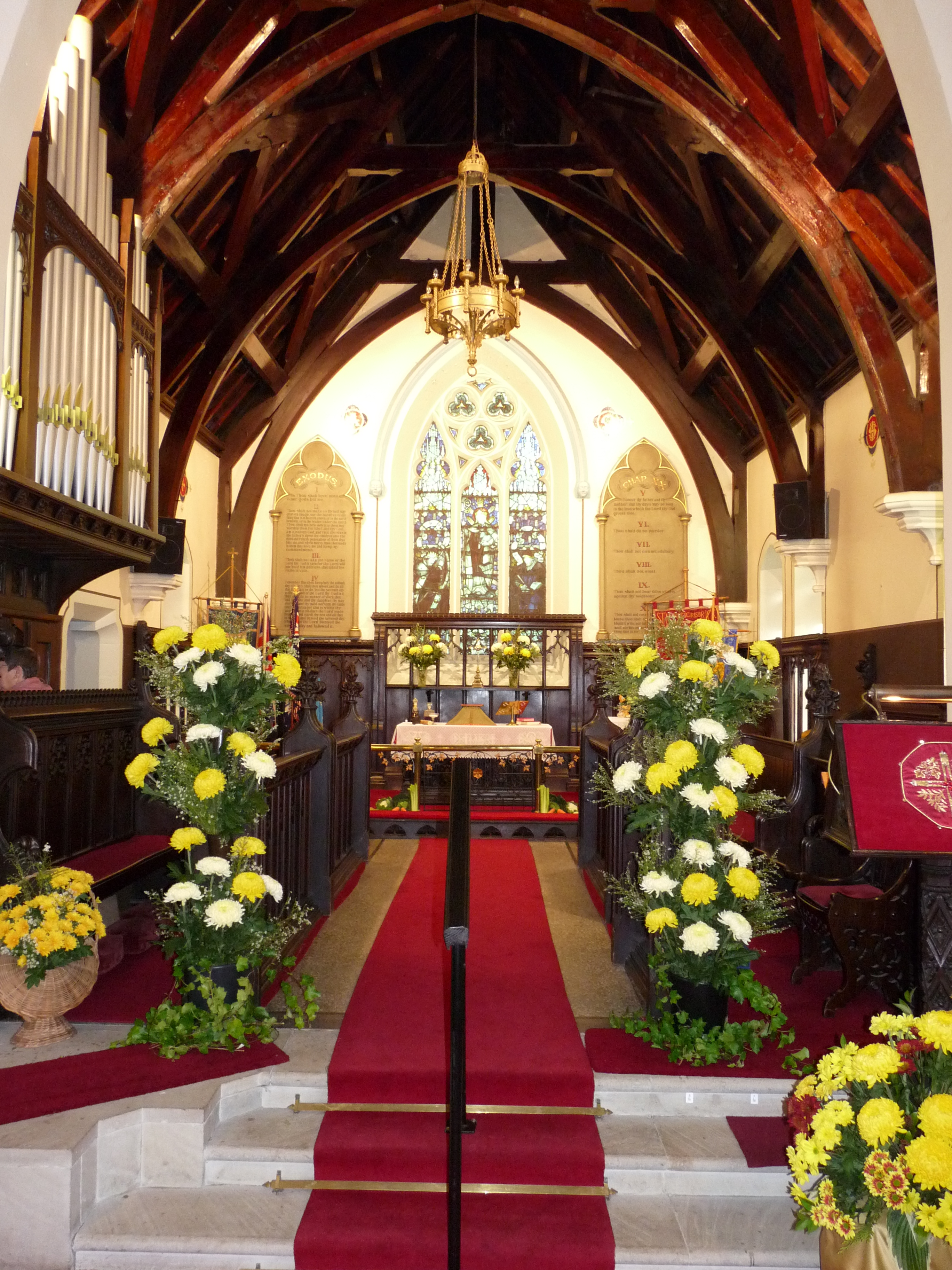 St Mark's Church, Scarisbrick, interior view of the chancel looking east.